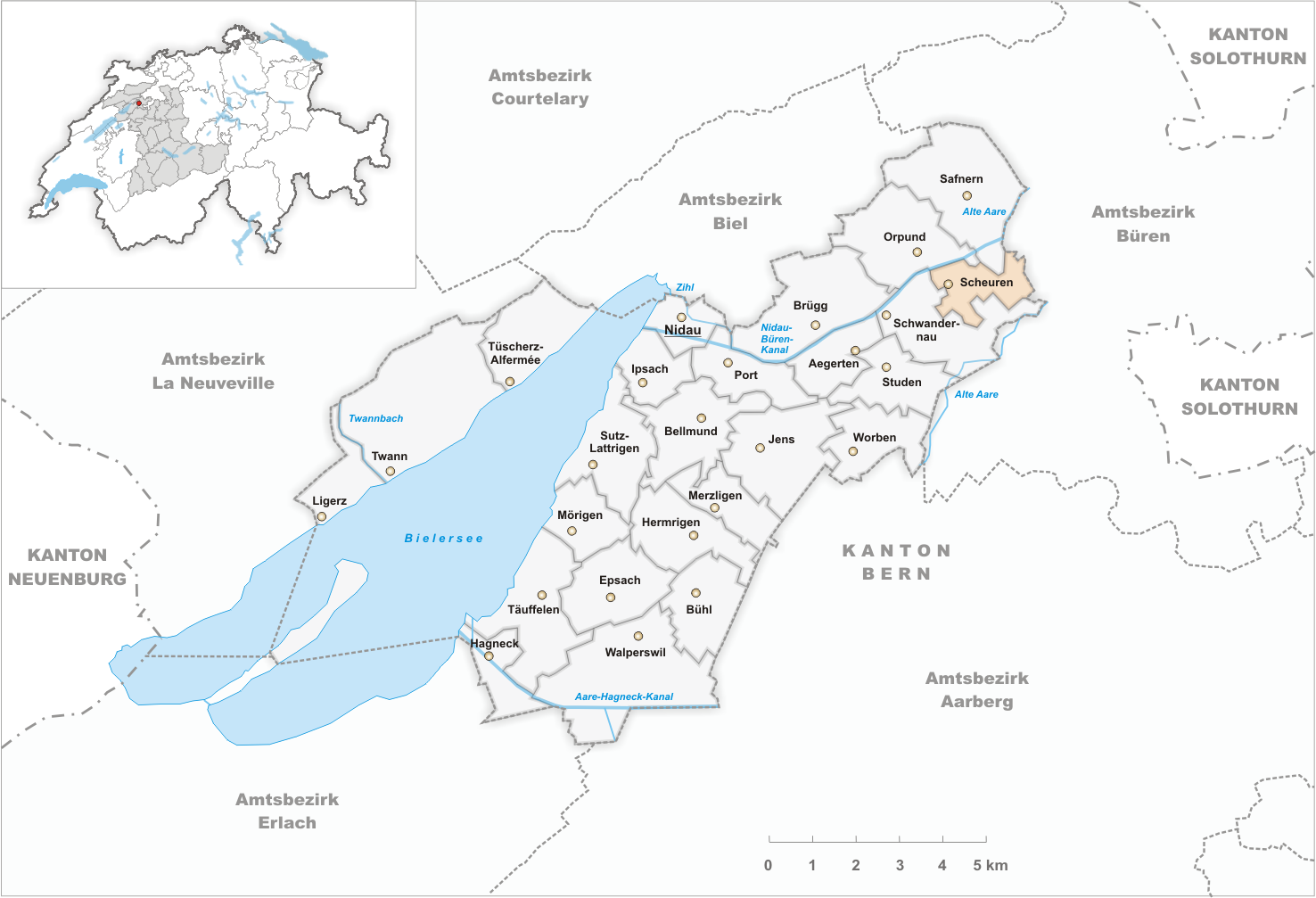 Municipality Scheuren